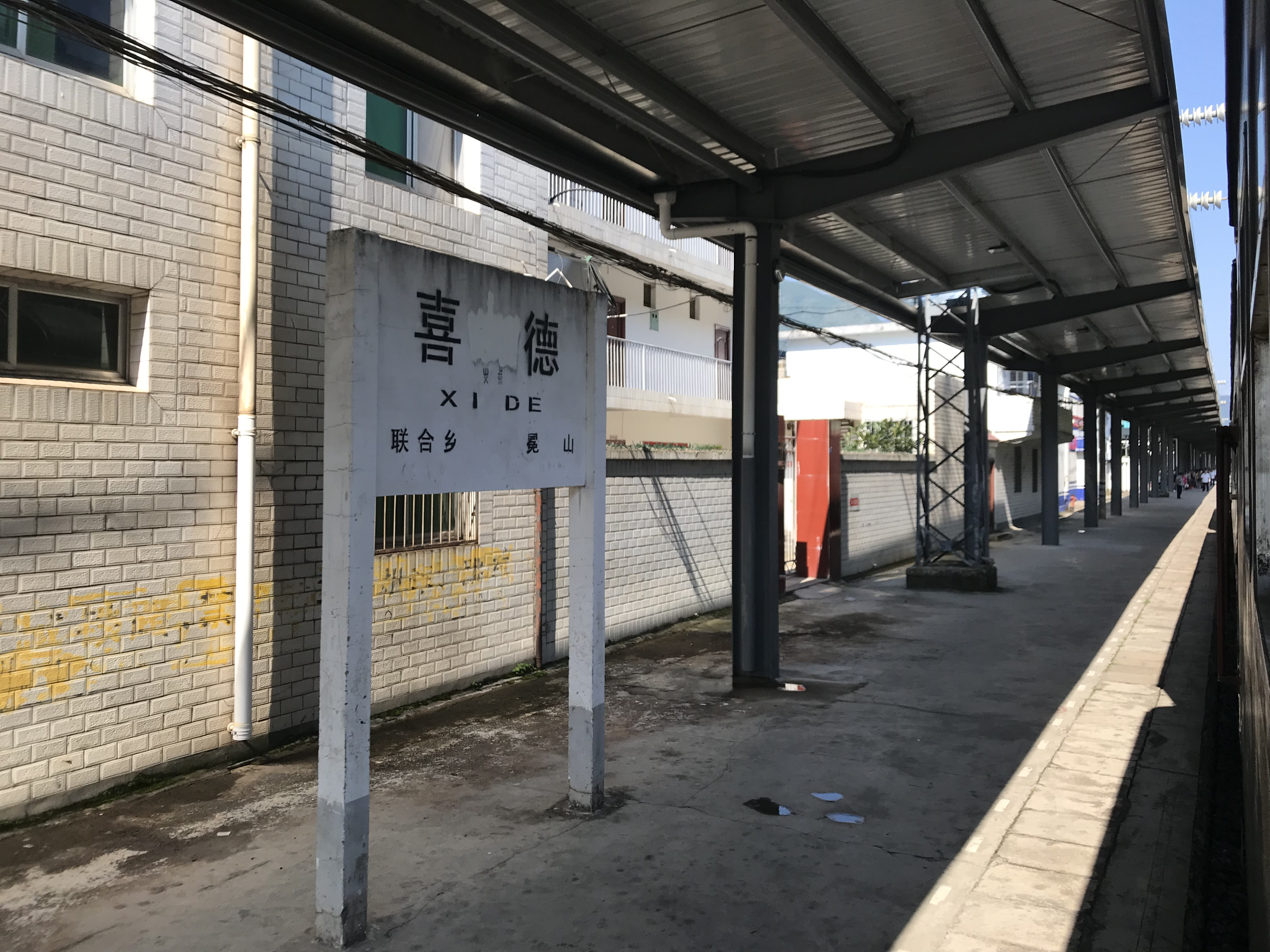 201908 Nameboard of Xide Station